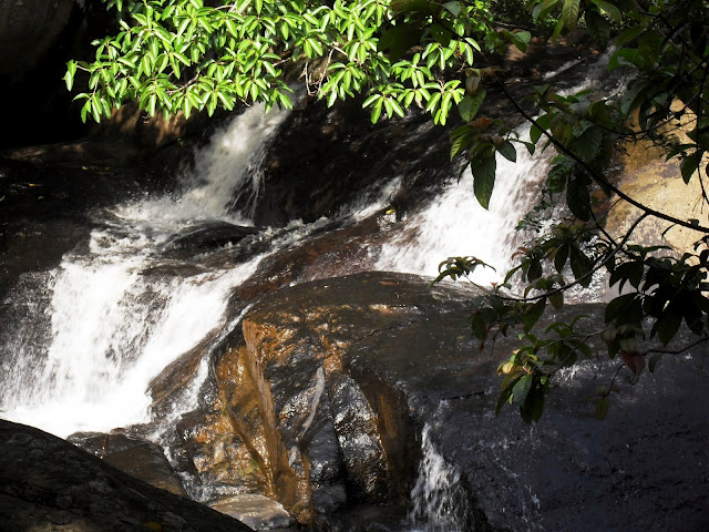 A view at top of the Thudugala Ella waterfall in Thudugala, Dodangoda, Sri Lanka.